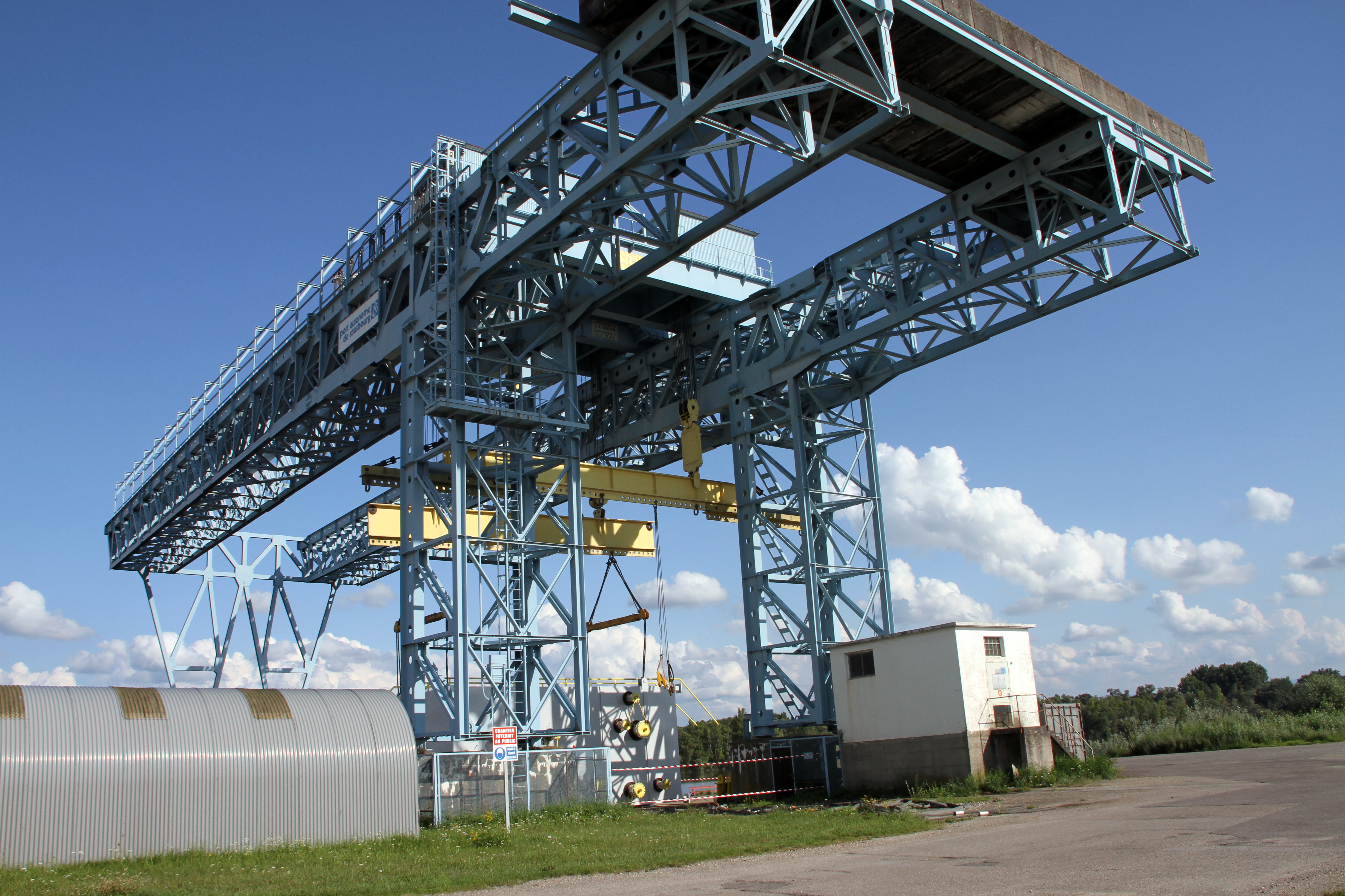 Lauterbourg harbour